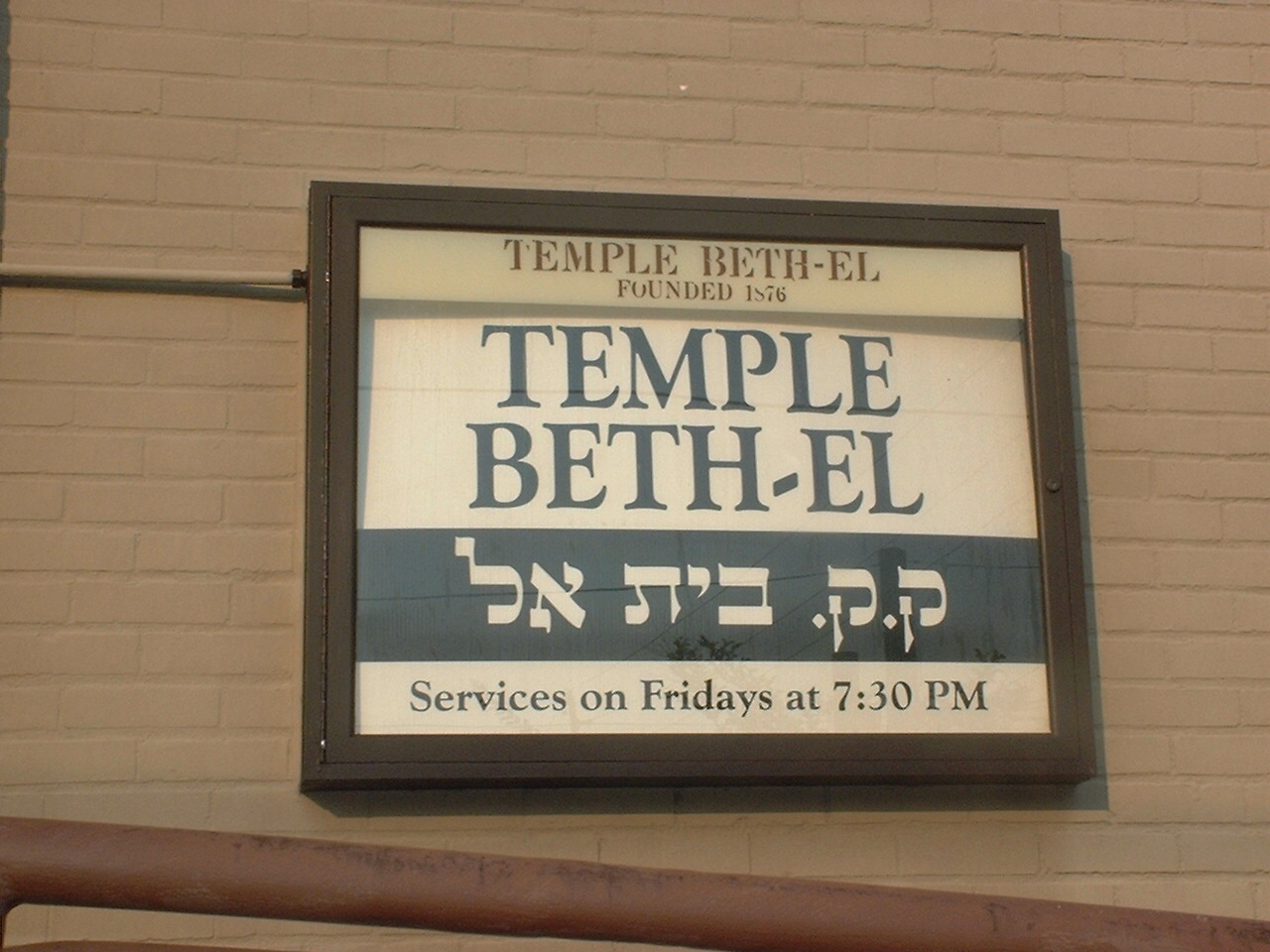 The Temple Beth-El sign in Pensacola, with Hebrew script. Category:Pensacola, Florida